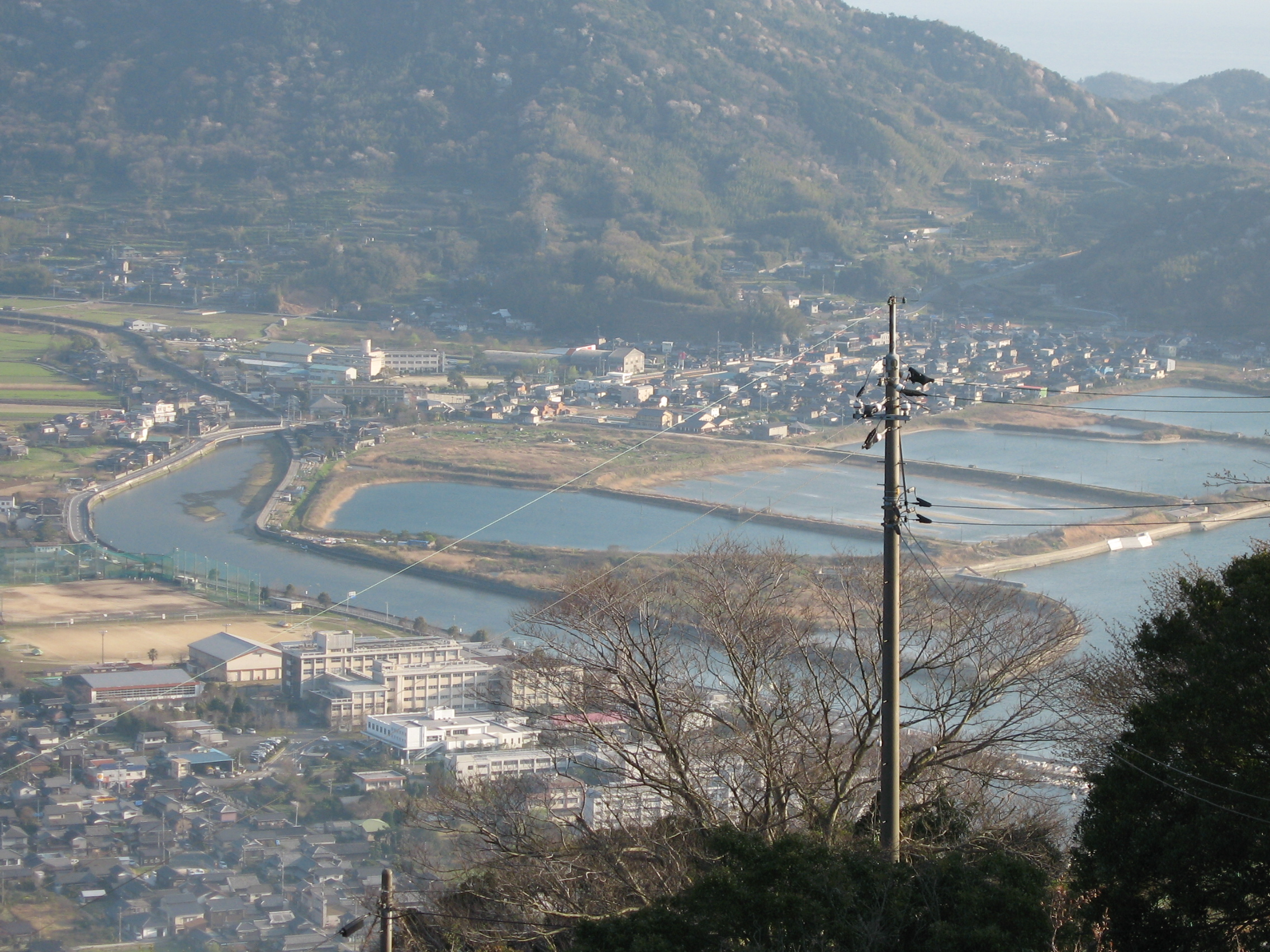 oshima kousen from the top of the mountain